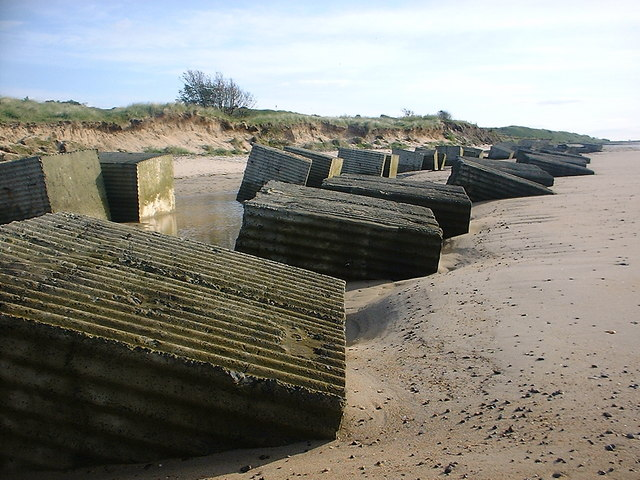 Blocks, Alnmouth Tumbled blocks lie along the shore in a straggling double line, like the vertebrae of some monster conquered by the sea. My first response was revulsion at the desecration of the beach by these intruders, but I grew fond of their corrugated bleakness. In defeat they have a stark beauty. Imagine the beach without them. Nothing.